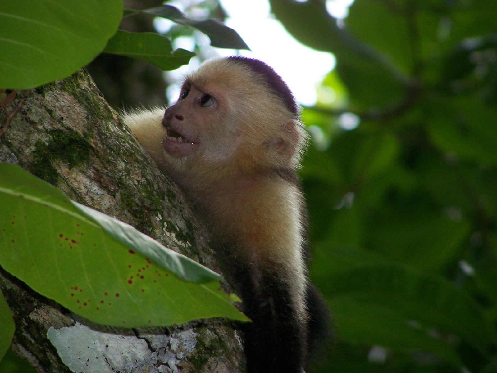 White-faced capuchin monkey in Manuel Antonion National Park in Costa Rica